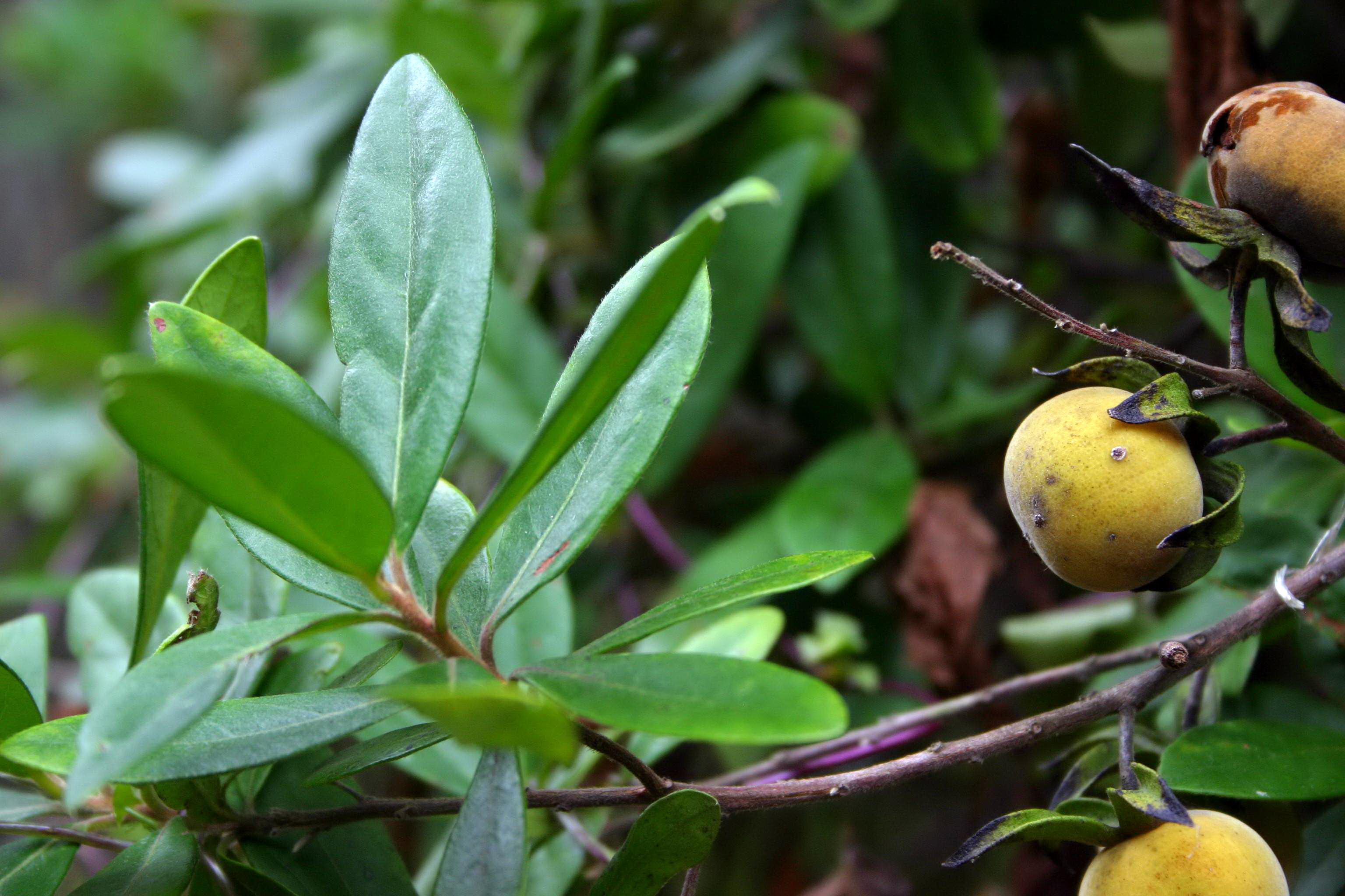 Diospyros dichrophylla foliage and fruit, Nature's Valley, South Africa